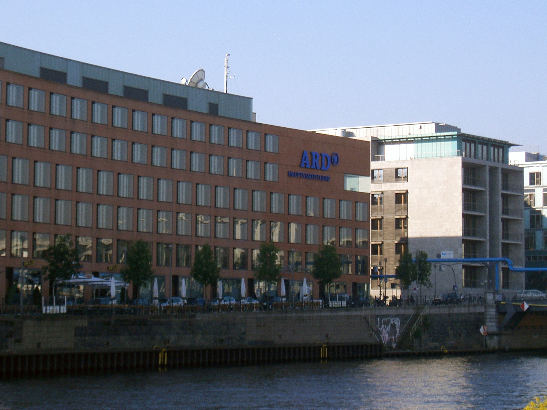 Capital studio of the german TV- and Radio-Network ARD in Berlin at the river Spree. On the right hand side parts of the Jakob-Kaiser-House with offices for the members of the Bundestag (german parliament).